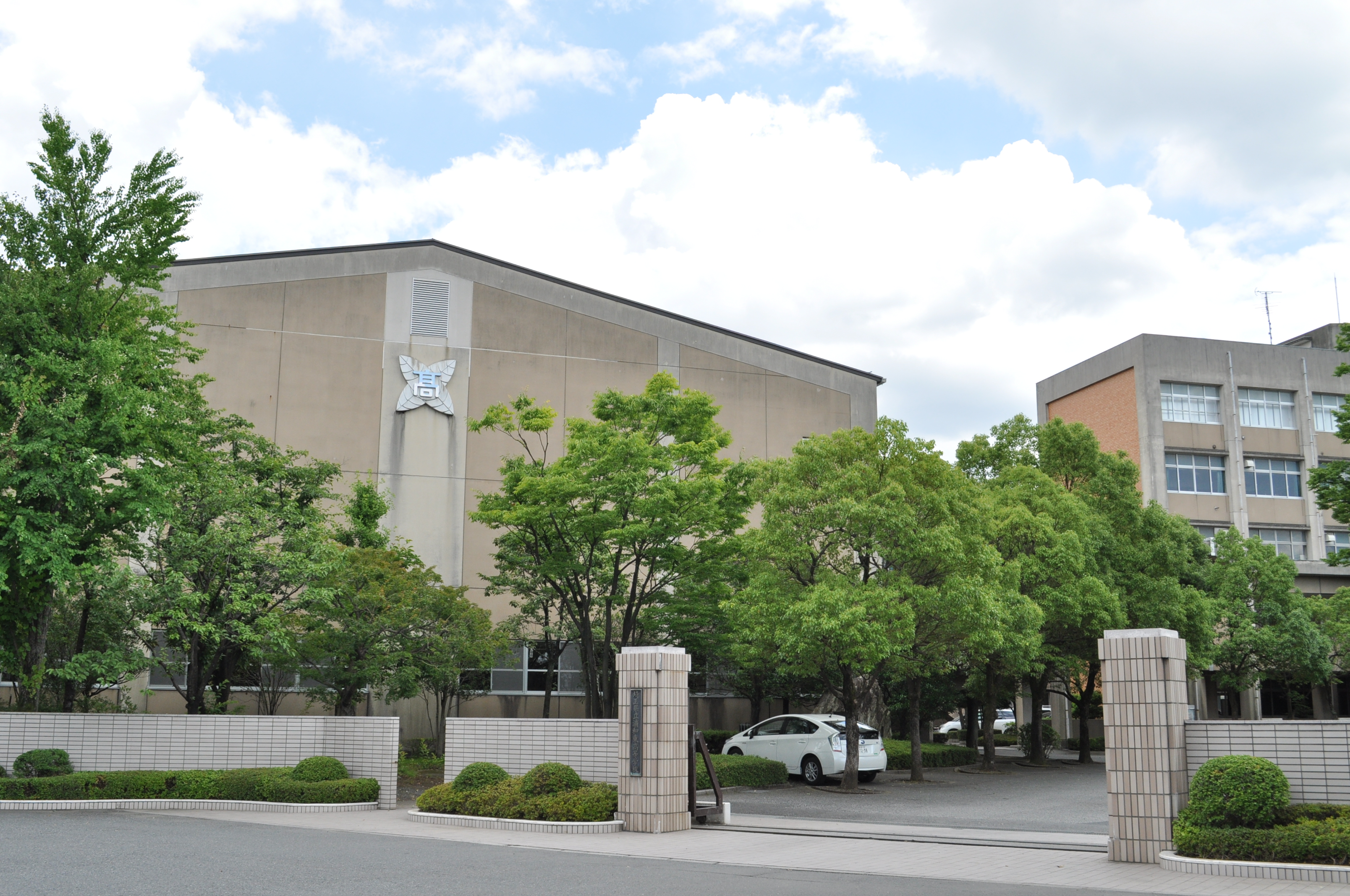 Urawa higashi high school